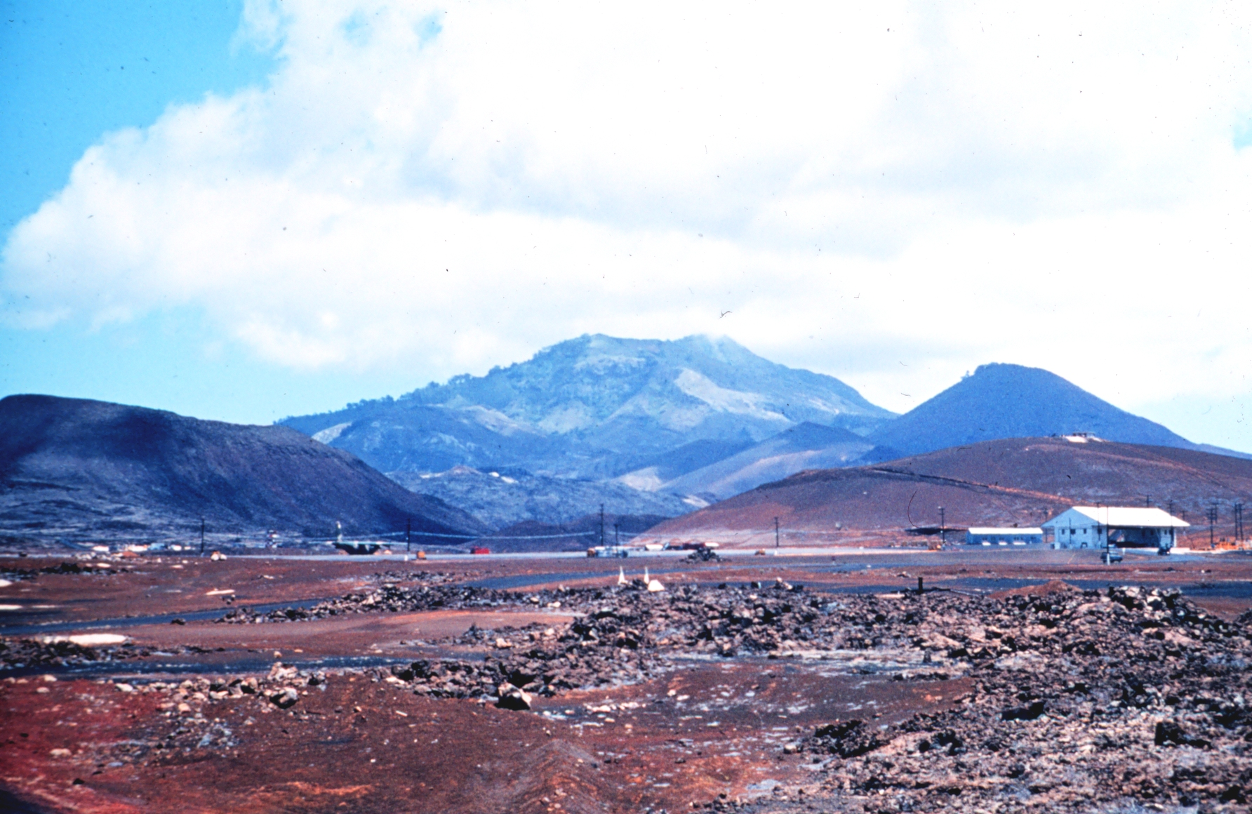 Station Number 055, Ascension Island, UK